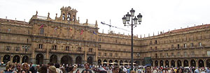 Plaza Mayor in Salamanca